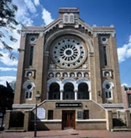 B'Nai